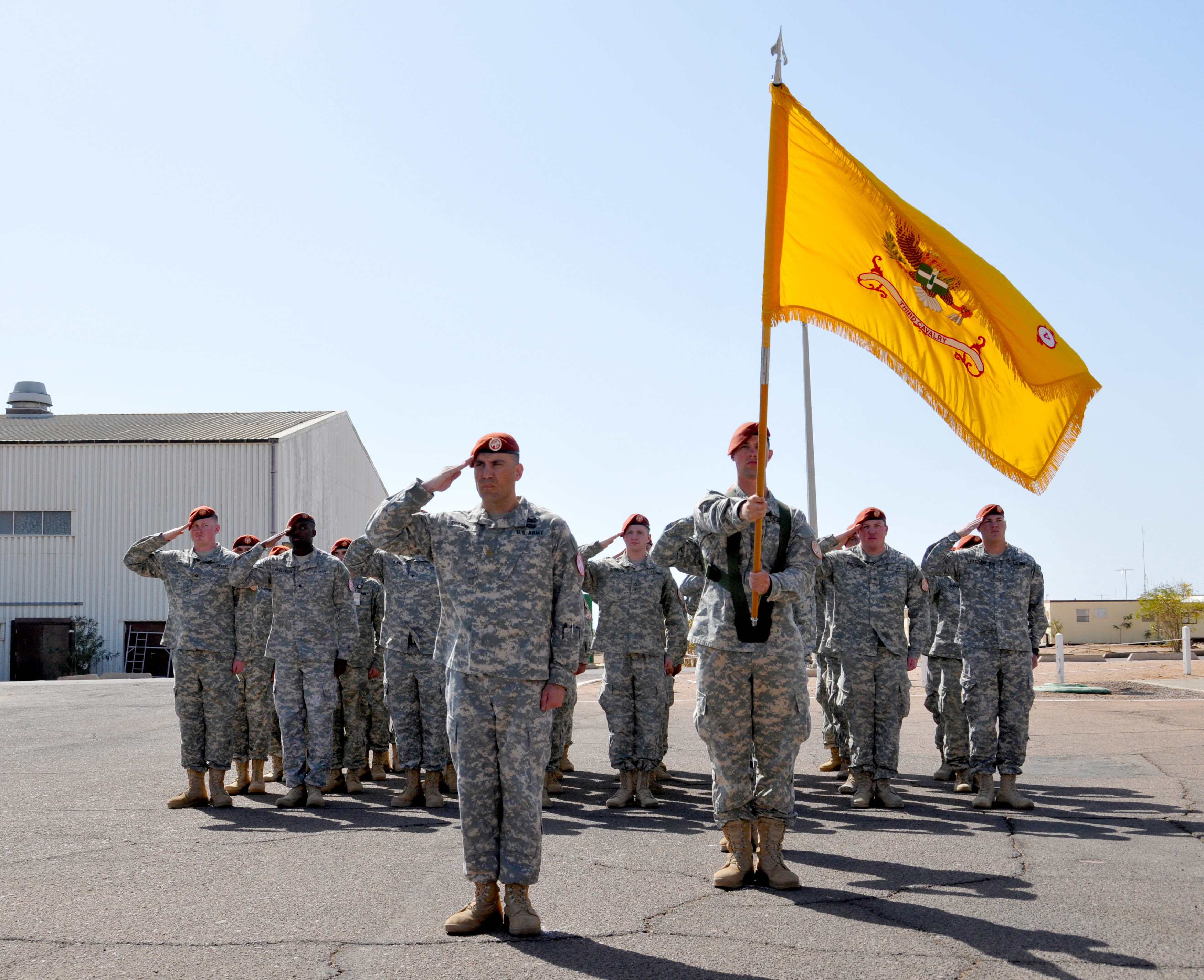 Troopers from the 4th Squadron, 3rd Cavalry Regiment, render a salute during a transfer of authority ceremony held on the Multinational Force and Observer's South Camp in Sharm el-Sheikh, Egypt, Feb. 18, 2015. The 4th Squadron, 3rd CR Soldiers relinquished command of the U.S. Security Battalion to Soldiers from the 1st Squadron, 112th Cavalry Regiment based out of Bryan, Texas.